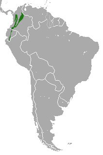 Gray-bellied Night Monkey (Aotus lemurinus) range